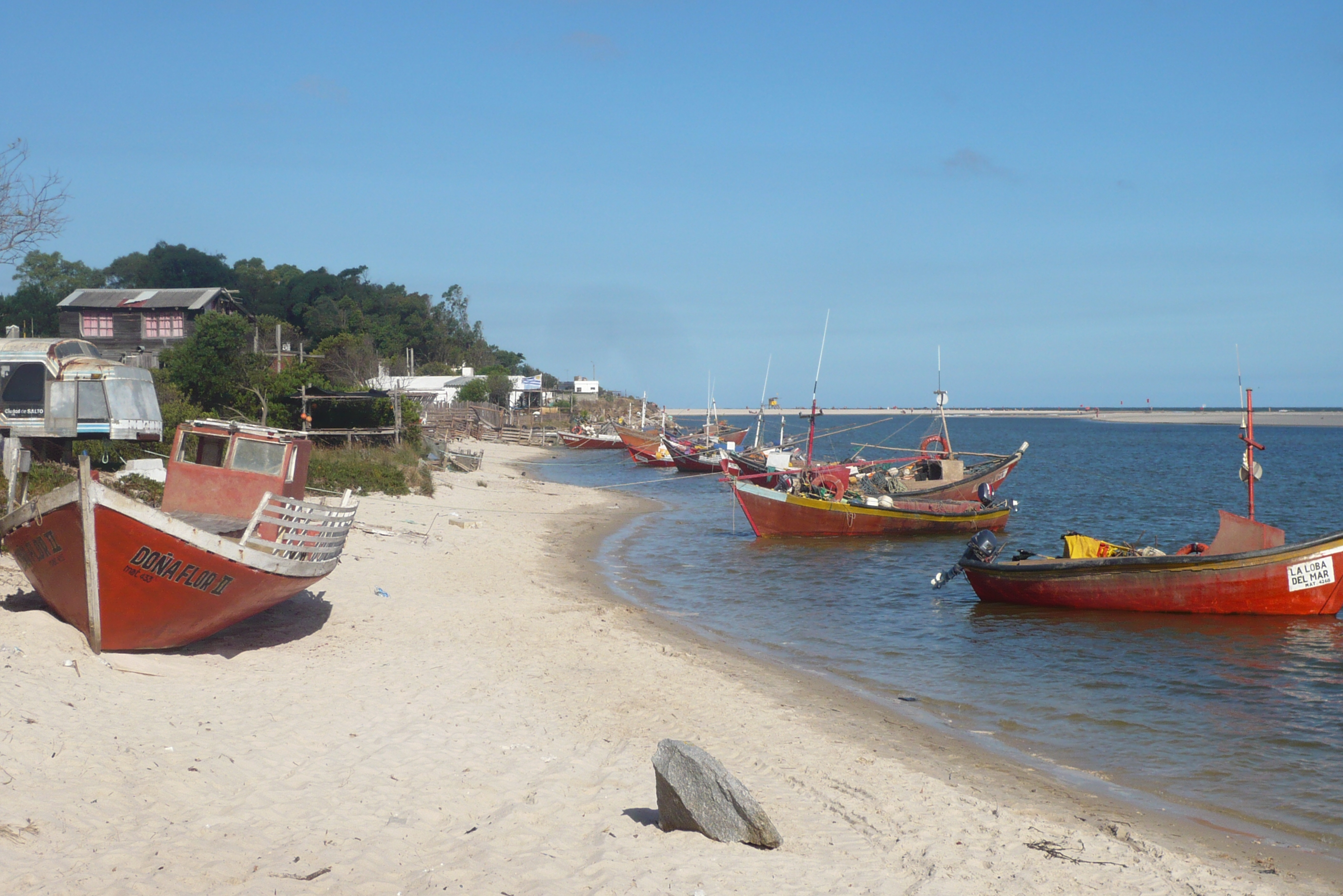 The mouth of river Arroyo Pando in the Río de la Plata between the resorts of Neptunia and El Pinar, Canelones, Uruguay.